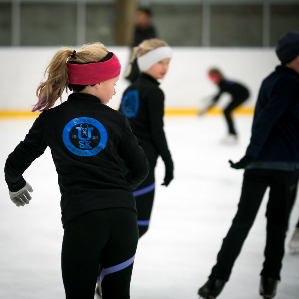 Figure skating training att Uppsala Skridskoklubb